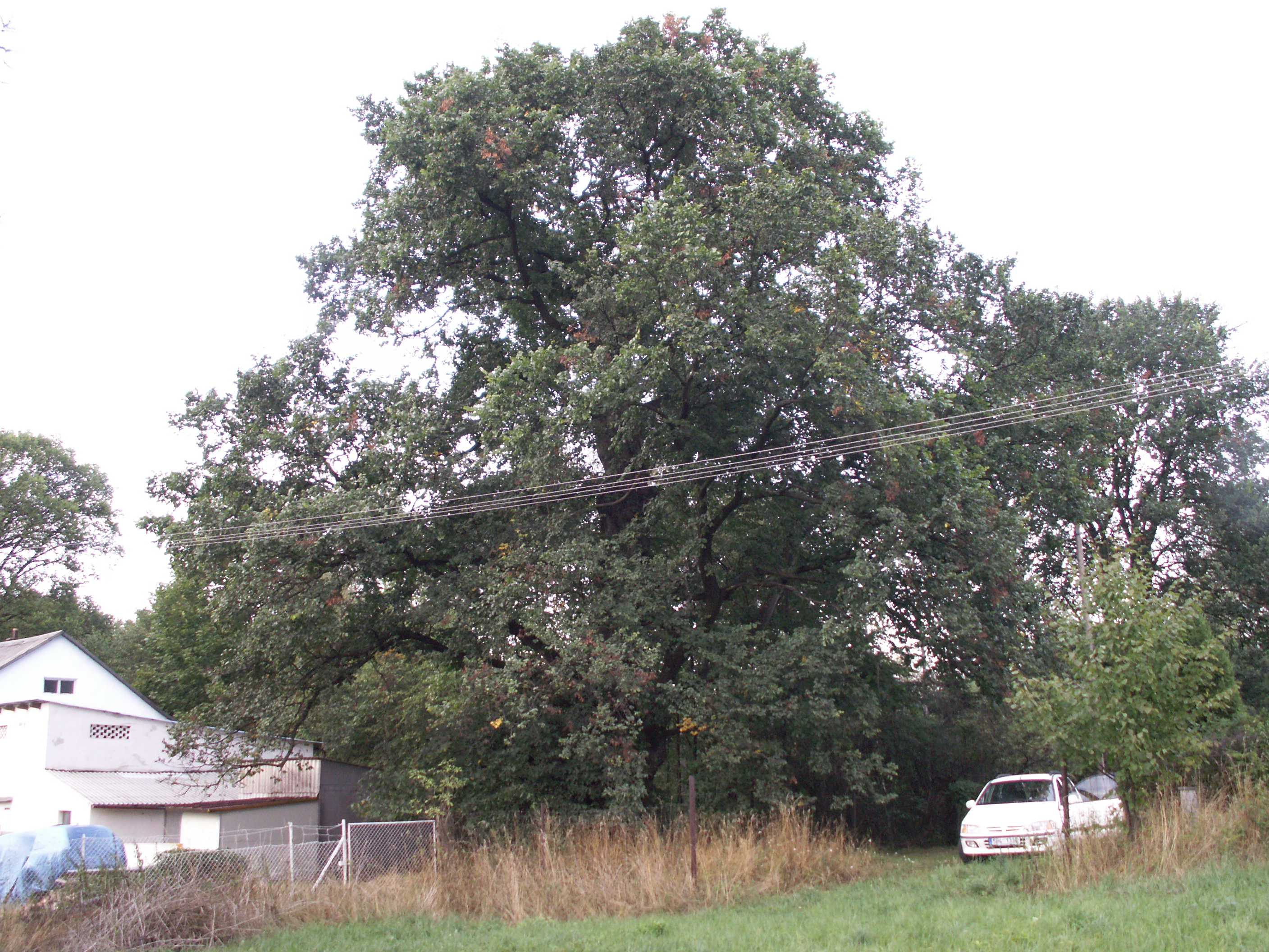 Malá Kraš, památný strom - Paukův jilm, jilm vaz